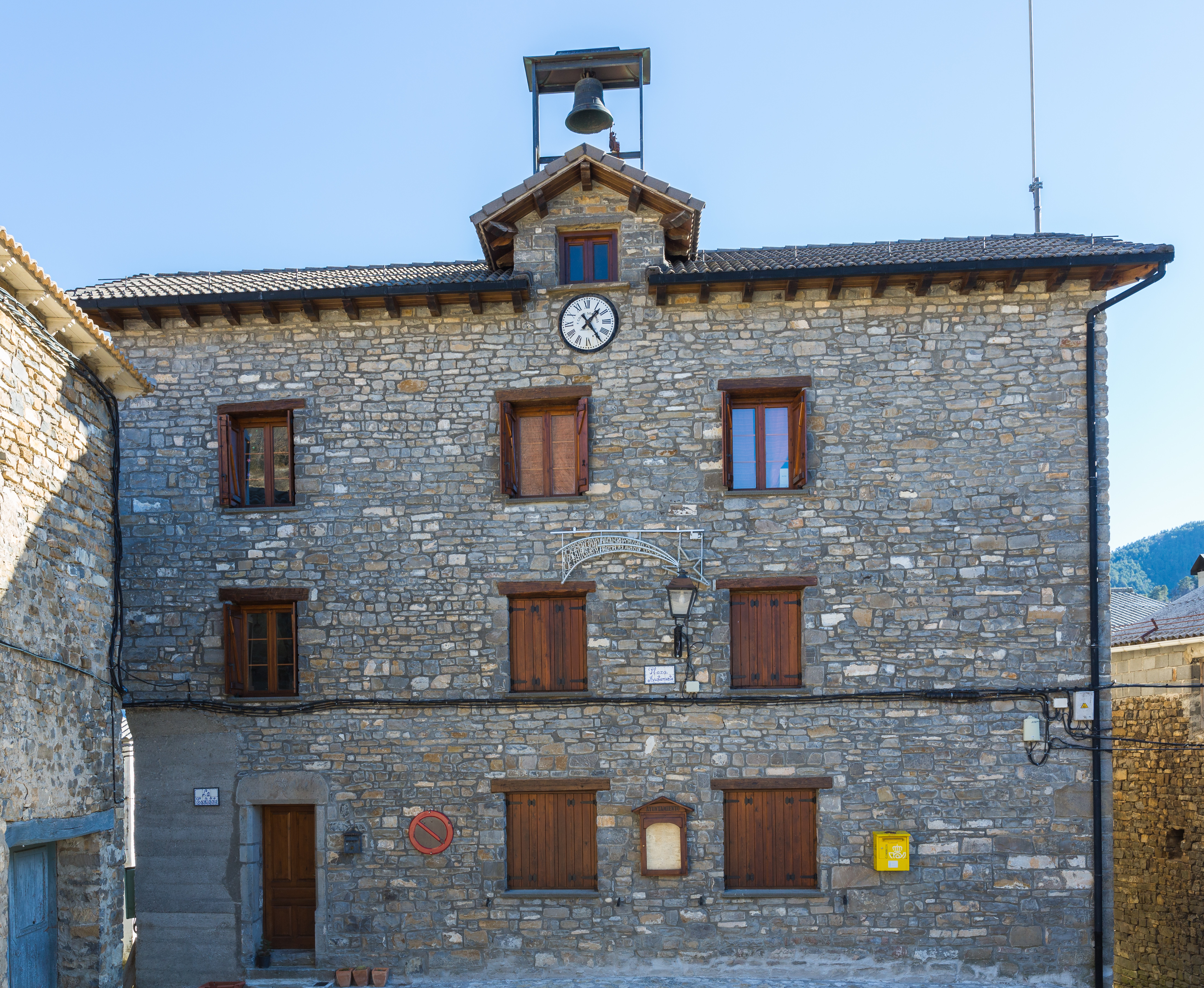 Town hall, Linás de Broto, province of Huesca, Spain.